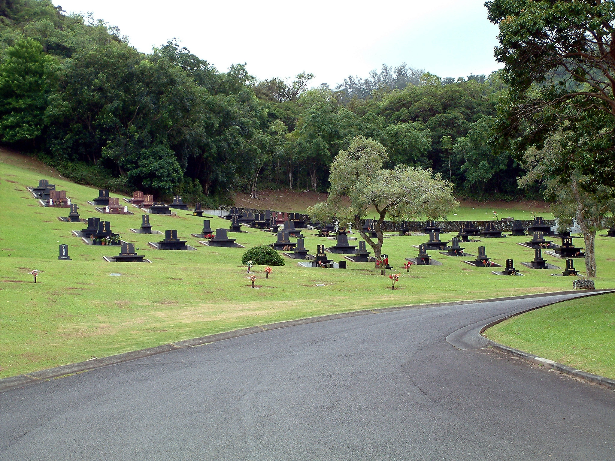 Valley of the Temples - November 2003. Original Photo by contributor. 2048 x 1536 - 2.647 MB - JPG